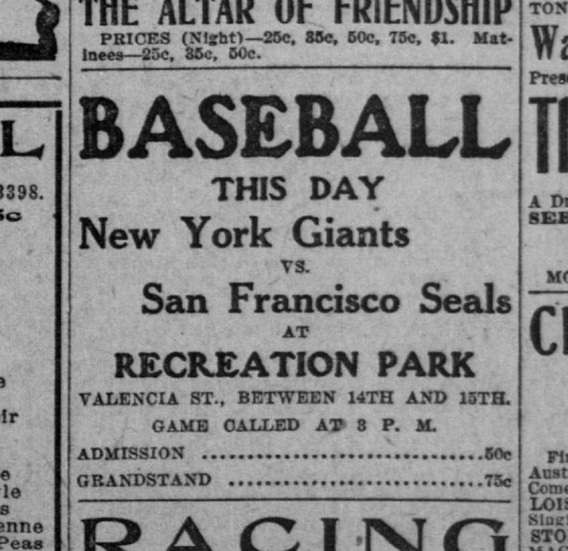 Library of Congress, cropped image of San Francisco Call newspaper dated March 16, 1907, Page 7. Showing advertisement for baseball game between New York Giants and San Francisco Seals at San Francisco Recreation Park.